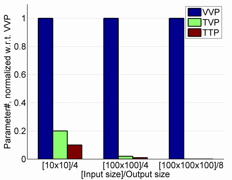 This figure compares the number of parameters to be estimated for the same amount of dimension reduction by vector-to-vector projection (VVP), (i.e., linear projection,) tensor-to-vector projection (TVP), and tensor-to-tensor projection (TTP). Multilinear projections require much fewer parameters and the representations obtained are more compact.